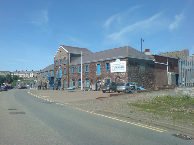 Museum at the Docks ( sorry - marina!) Housed in a lovely old, stone dockside building.